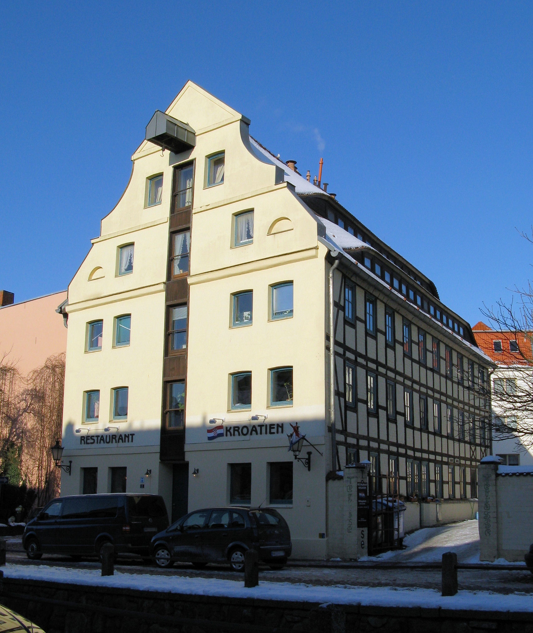 Former Warehouse in Wismar, Mecklenburg-Vorpommern, Germany